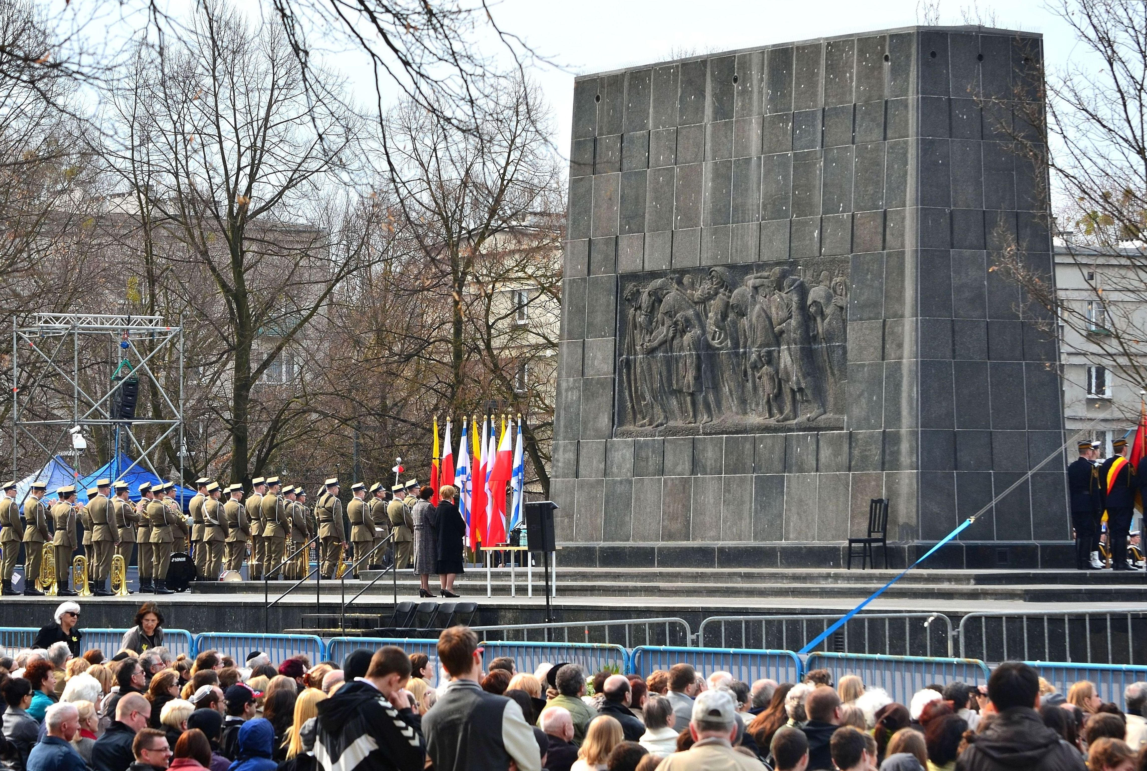 Monument to the Warsaw Ghetto Heroes (eastern side) - 70th Anniversary of the Warsaw Ghetto Uprising